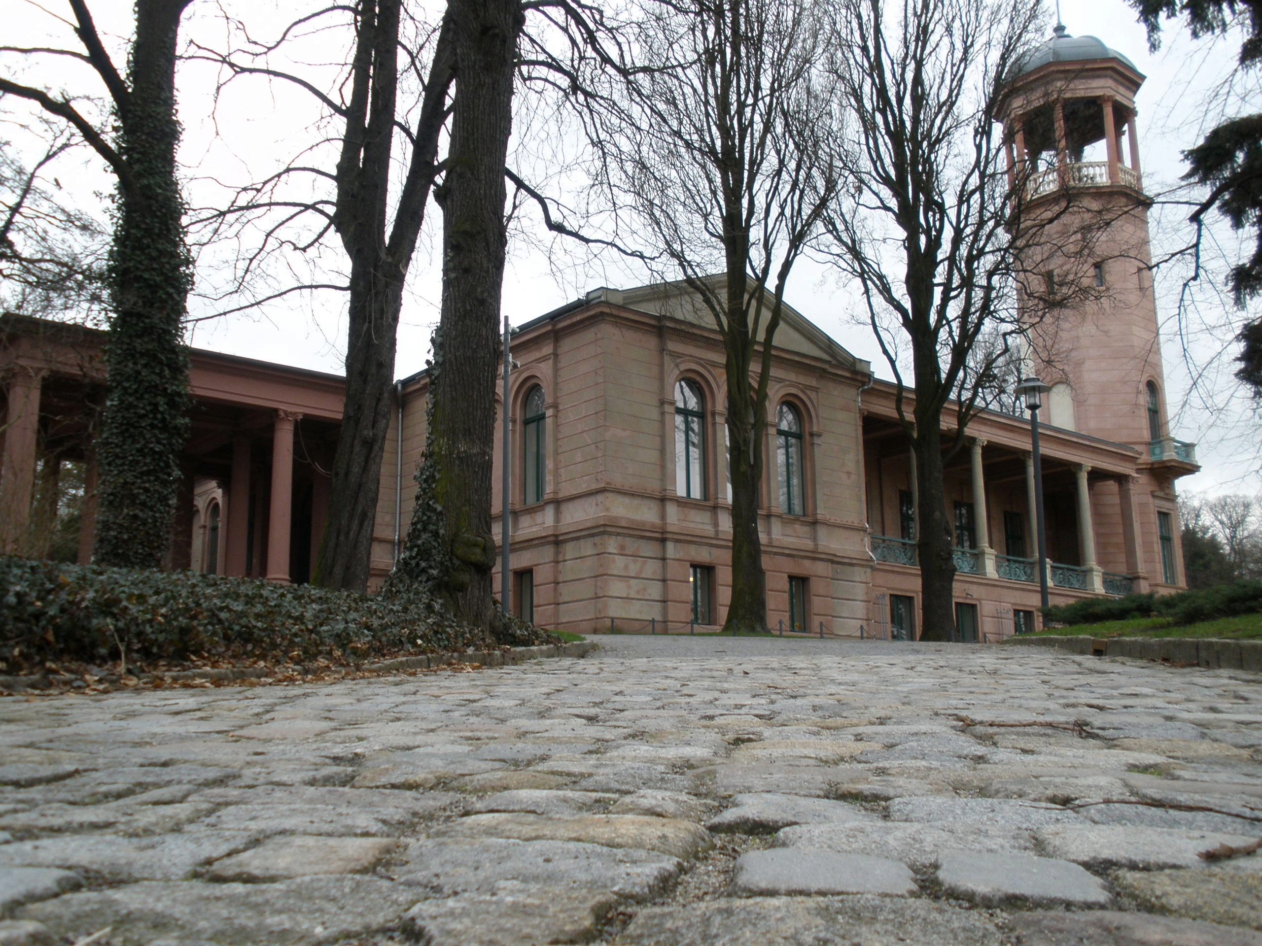 Castle Biesdorf, Berlin, Germany. View from Southeast.